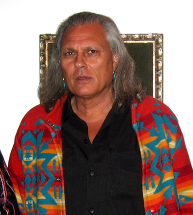 Native American artist and actor, Michael Horse, photographed in San Francisco, California